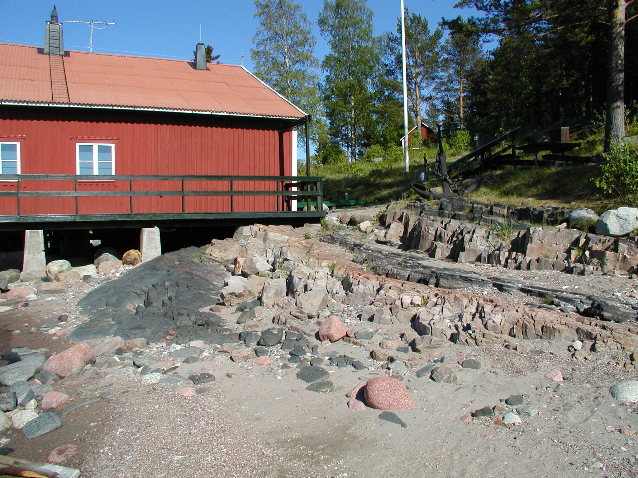 Jotnian sandstone (light-coloured) and dolerite sills (grey-coloured) in Trysunda, Sweden.